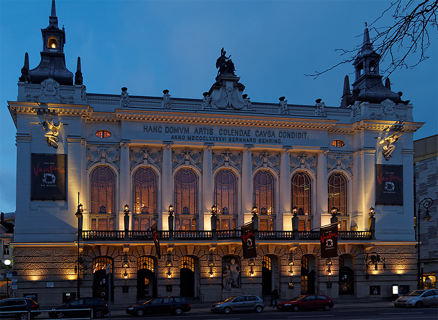 The Theatre of the West is one of the most famous theatres for musicals and operettas in Berlin, Germany, located at Kantstraße in Berlin-Charlottenburg near Zoologischer Garten. (O3028096-Dv3)